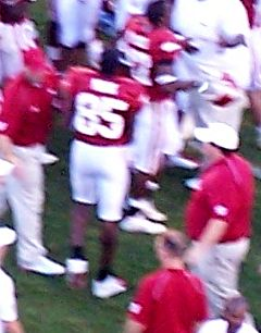 Former Arkansas Razorback receiver Marcus Monk after the 2006 game with Alabama.